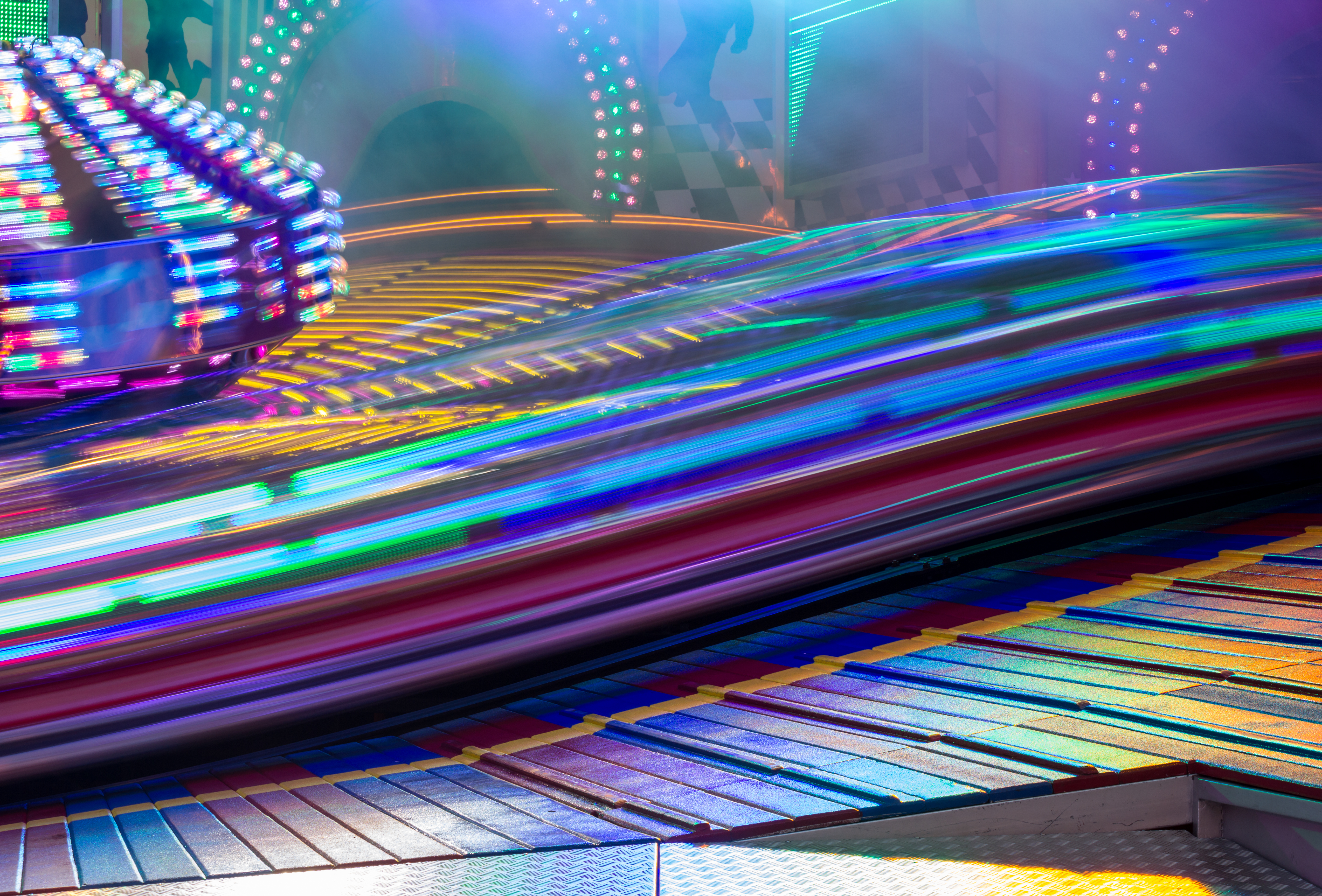 Light traces of a carousel, Viktorkirmes in Dülmen, North Rhine-Westphalia, Germany